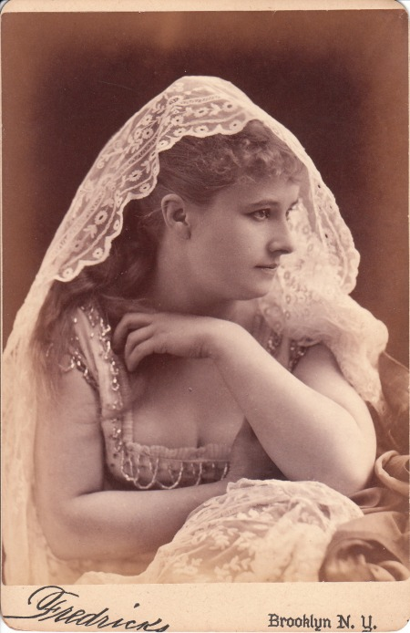 Pauline Markham 1847-1919, American actress, singer and burlesque dancer. This cabinet card, showing cleavage, was risque for the era. Josephine Marcus ran away from home in San Francisco and joined her troupe.